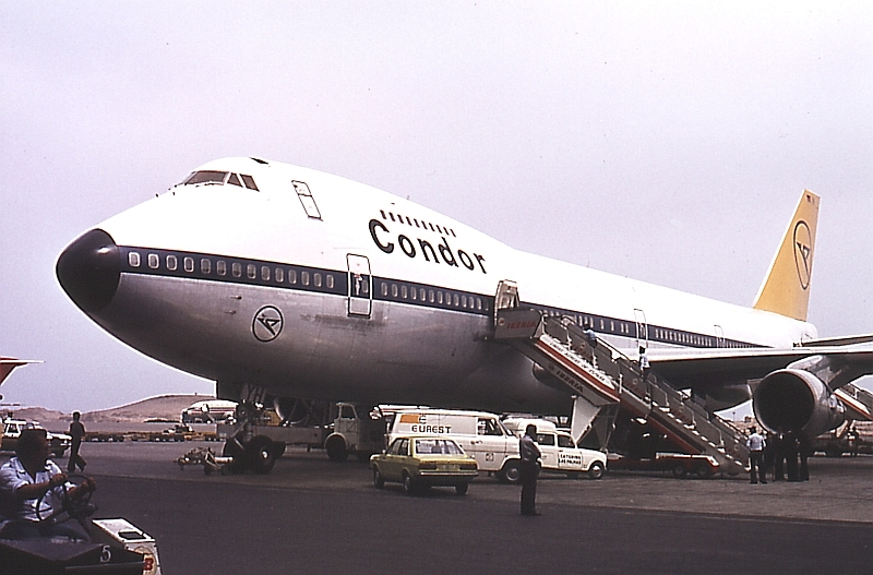 A Boeing 747-200B of the Condor airline at the airport in Grand Canaria LPA ​​- 1978